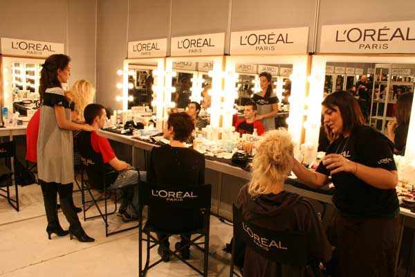 Make-up artists backstage at the Pasarela Cibeles fashion show, Madrid Fashion Week